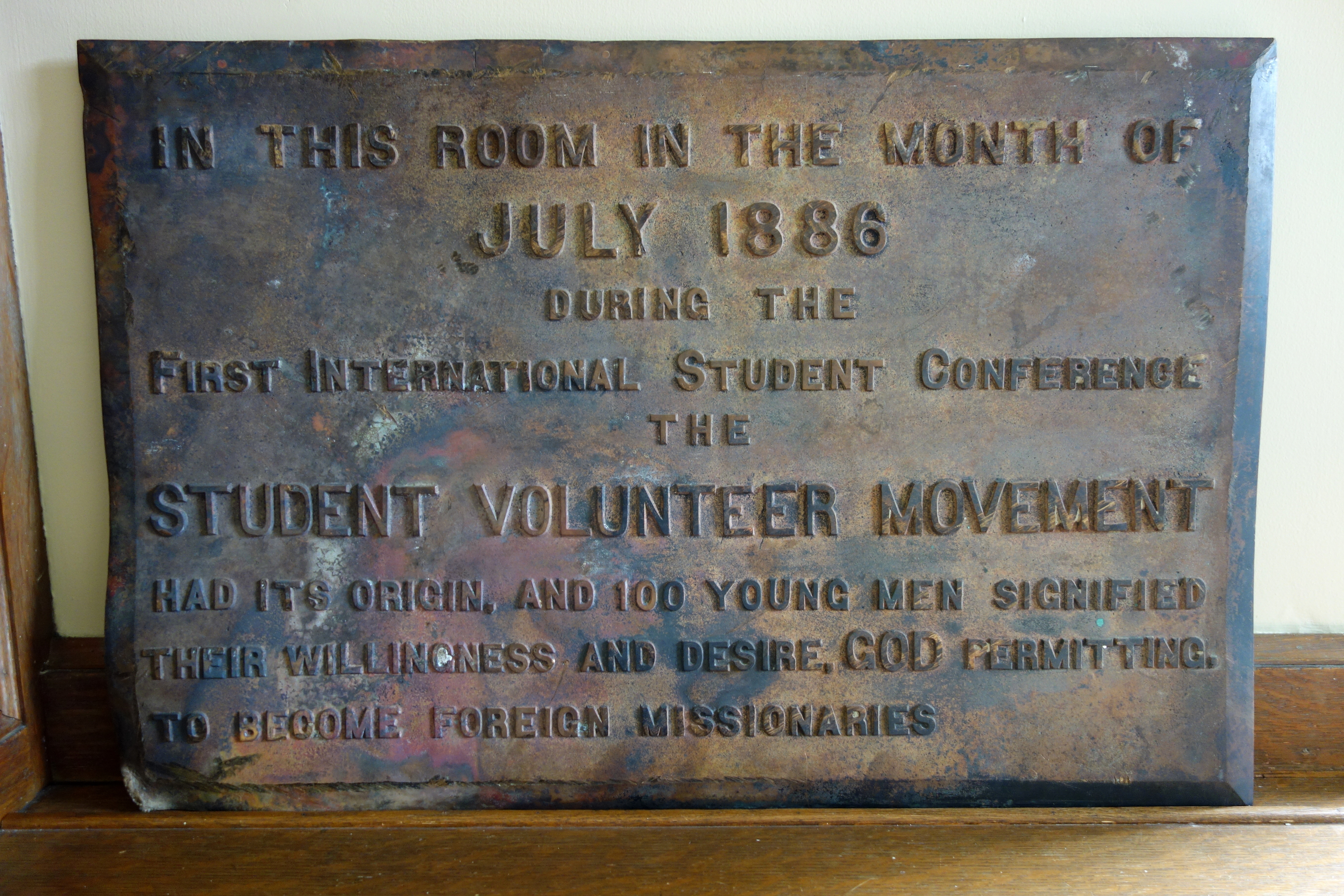 Memorial in Northfield Mount Hermon School, Mount Hermon, Massachusetts, USA.